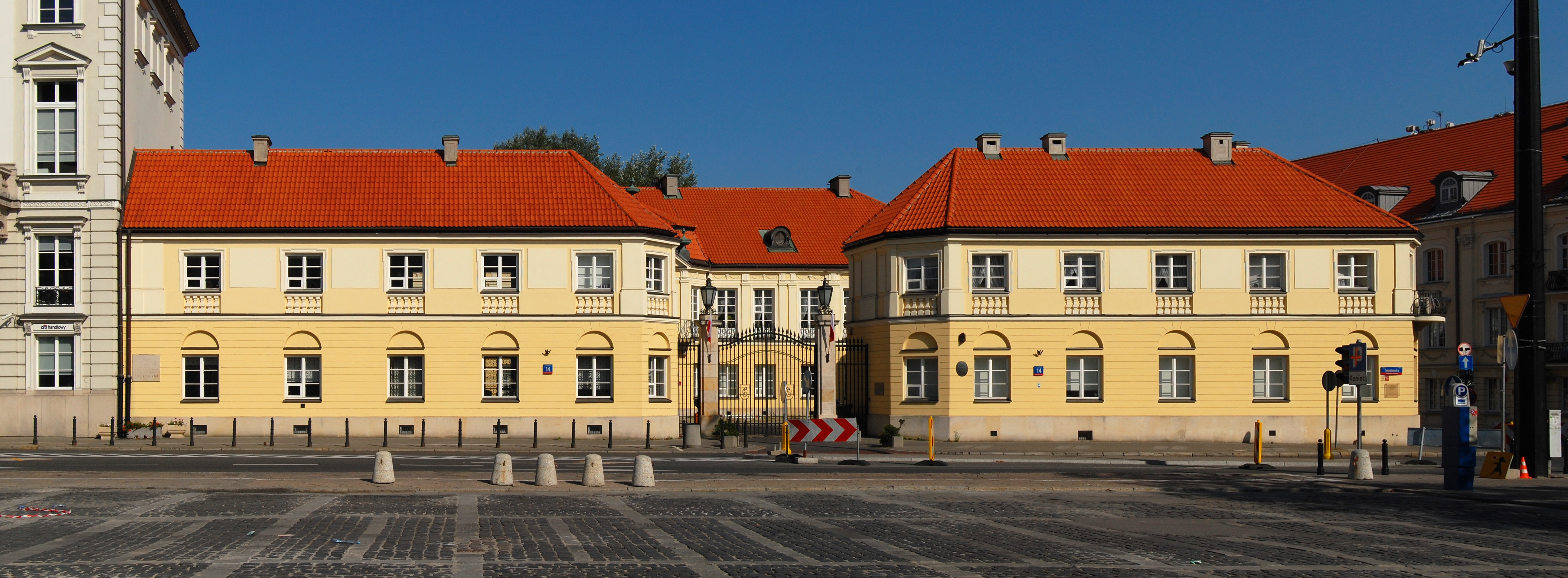 Blanka Palace in Warsaw, Poland.